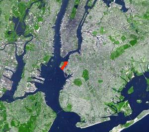 The Buttermilk Channel (shown in red) in Upper New York Bay separating Governors Island and Brooklyn. Originally satellite photo by NOAA © 2004 Matthew Trump.